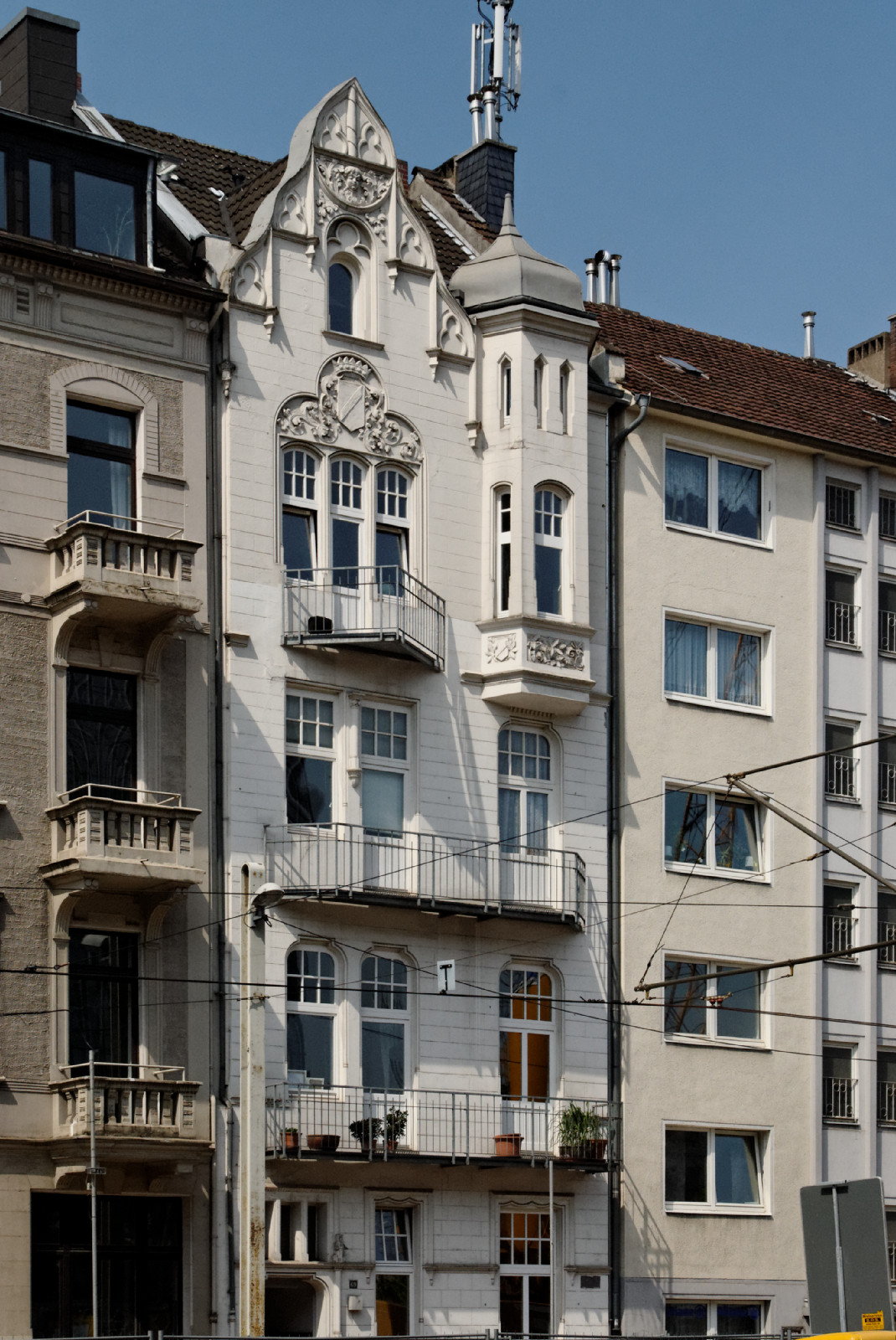 House Elisabethstraße 69 in Düsseldorf-Unterbilk, Germany